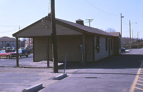 Mansfield station in March 1985. The "temporary" station built in 1955 served until 2004.